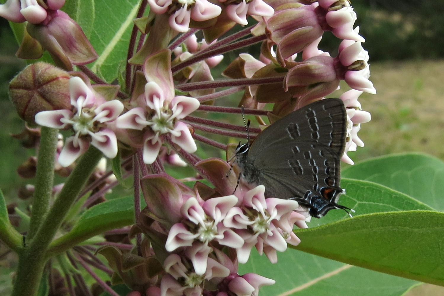 Banded Hairstreak (Satyrium calanus) on Common Milkweed, Limerick Forest, Leeds-Grenville, Ontario